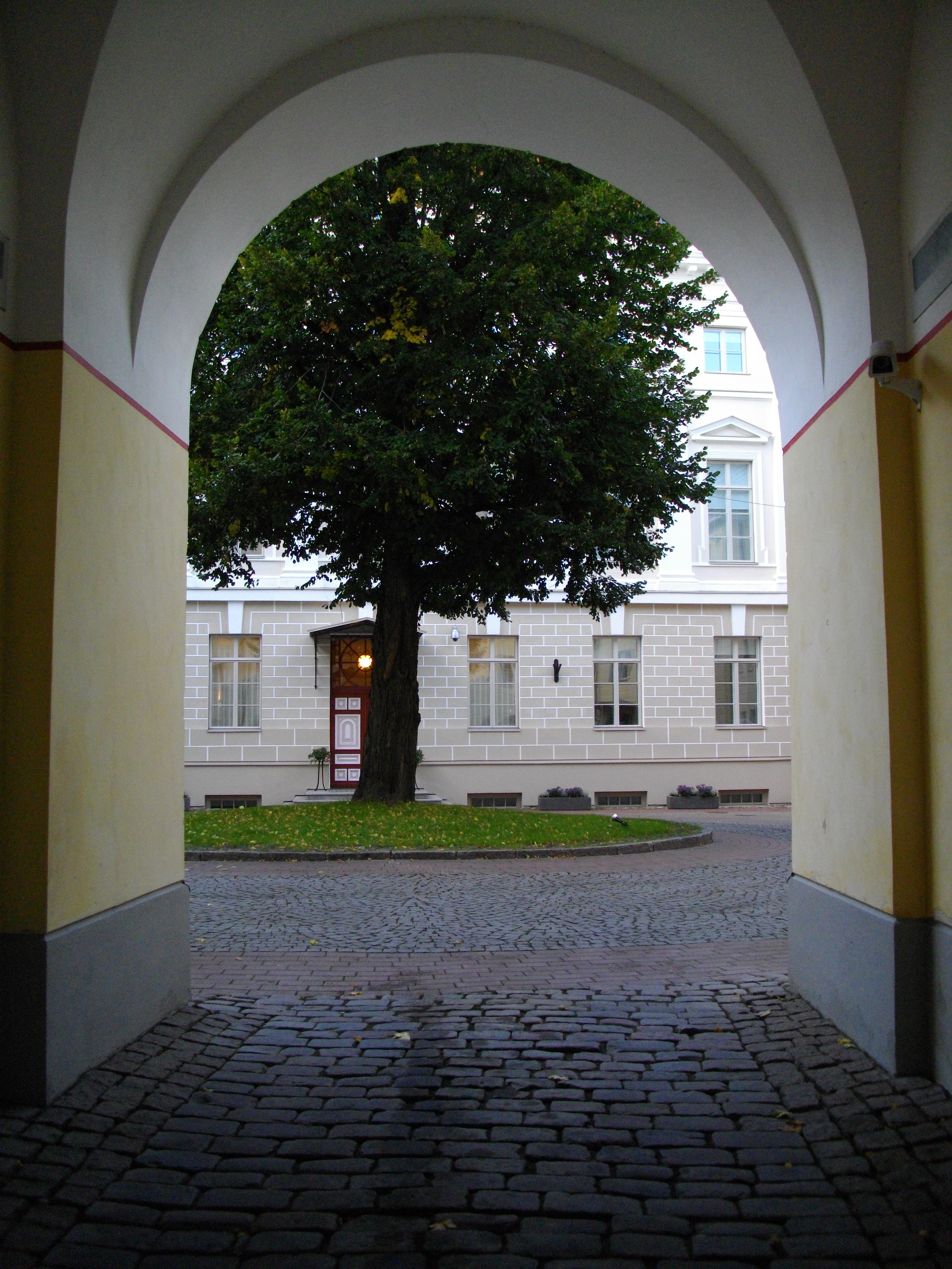 Внутренний двор дома Стенбока